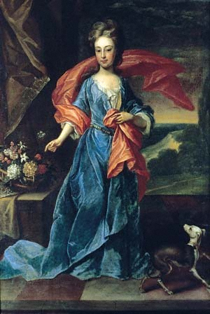 Portrait of Frances Vane, Viscountess Vane (1715-1788))